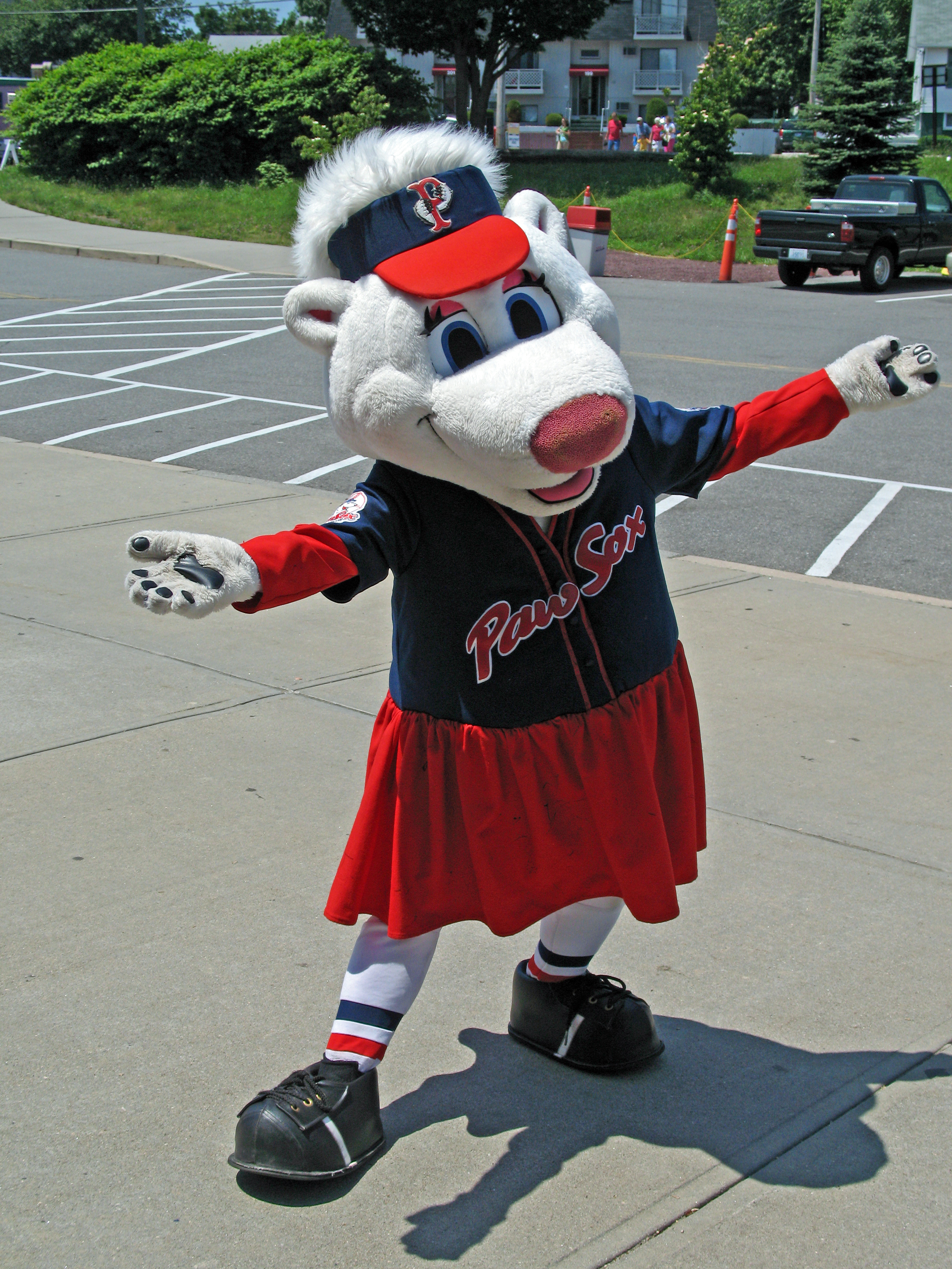 PawSox mascot, Sox, before the game.